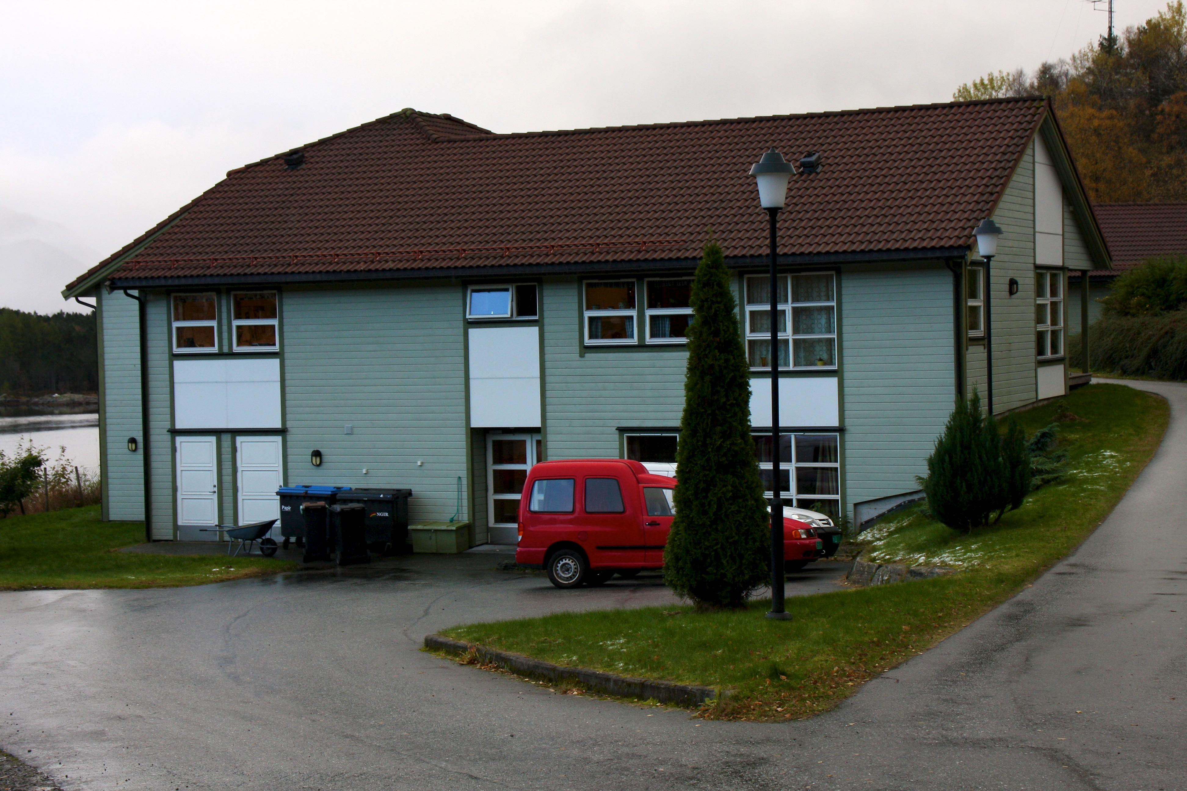 Gulen municipality, Norway.